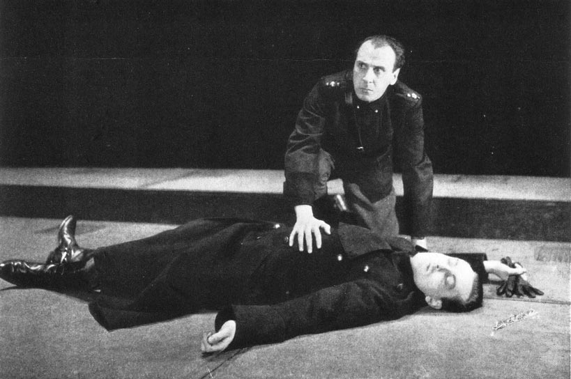 Photograph of George Coulouris (Antony) kneeling over Orson Welles (Brutus) at the conclusion of the Mercury Theatre's Broadway production of Caesar